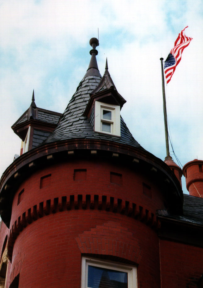 Graceland University Administration Building. Photo by Matthew Bolton, 2001. This building is located on the campus in Lamoni, Iowa.